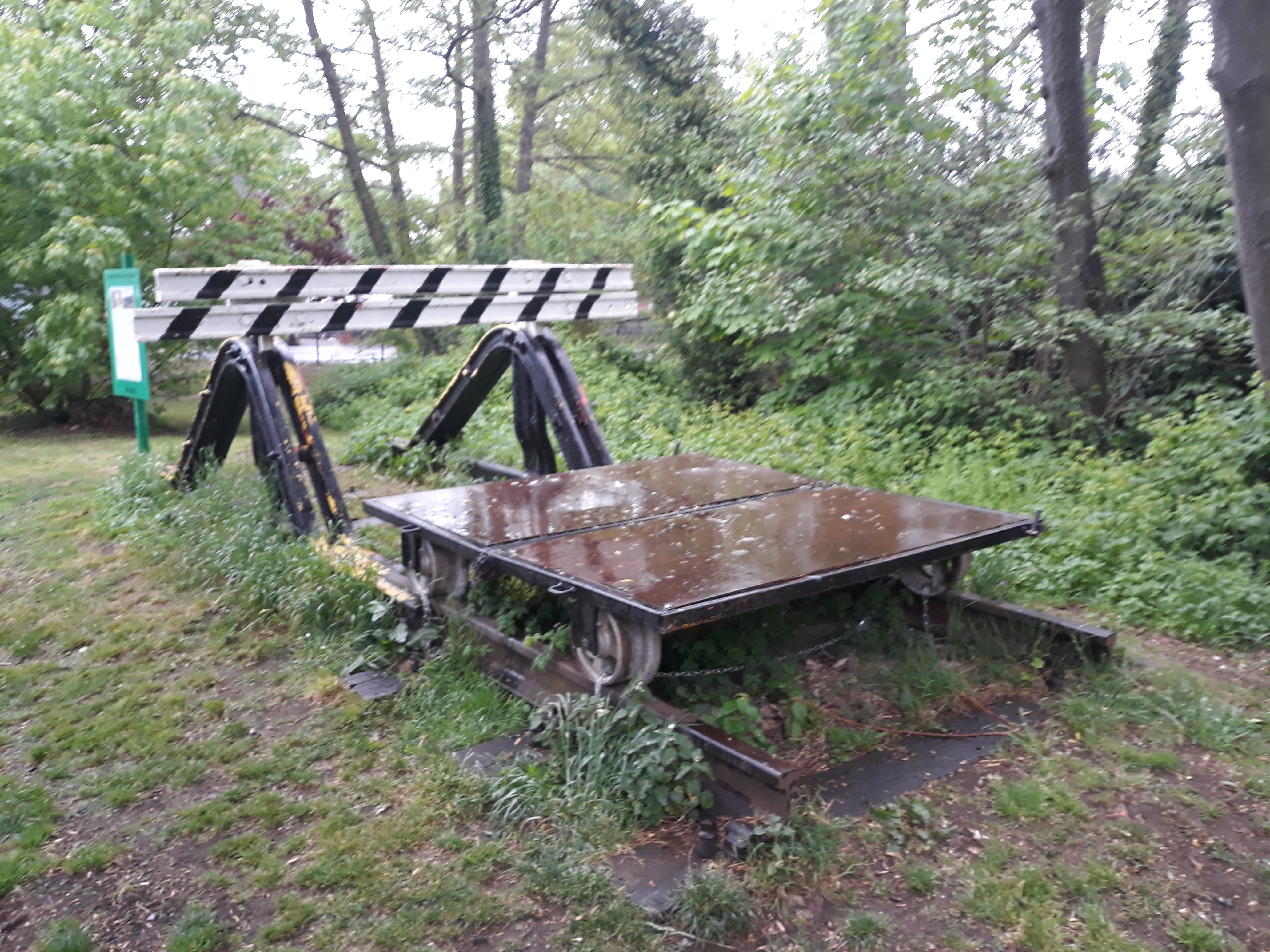 Buffers of the former Longmoor Military Railway, Liss, Hampshire, England.